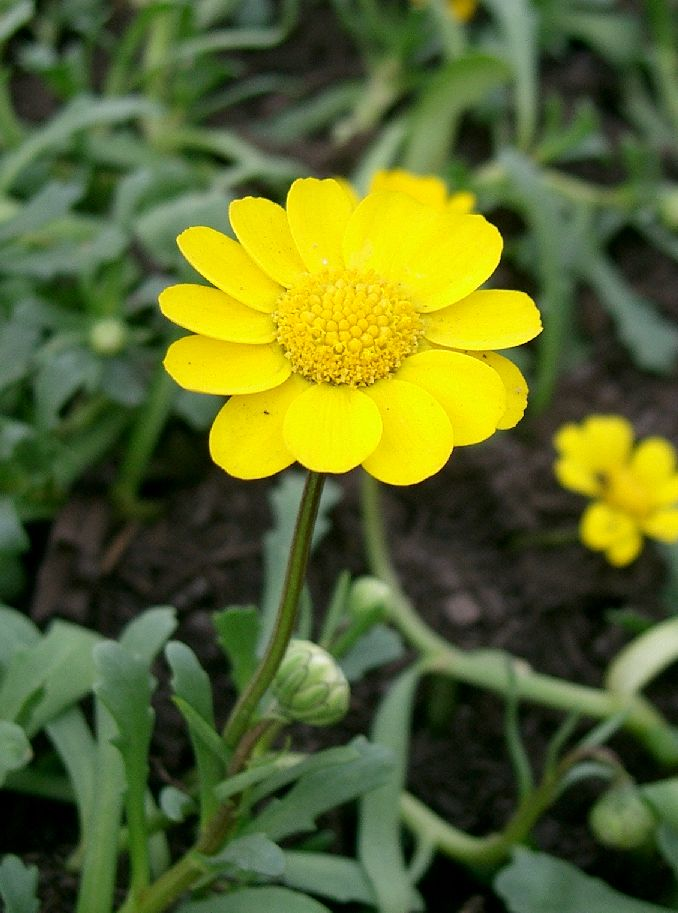 Coleostephus myconis